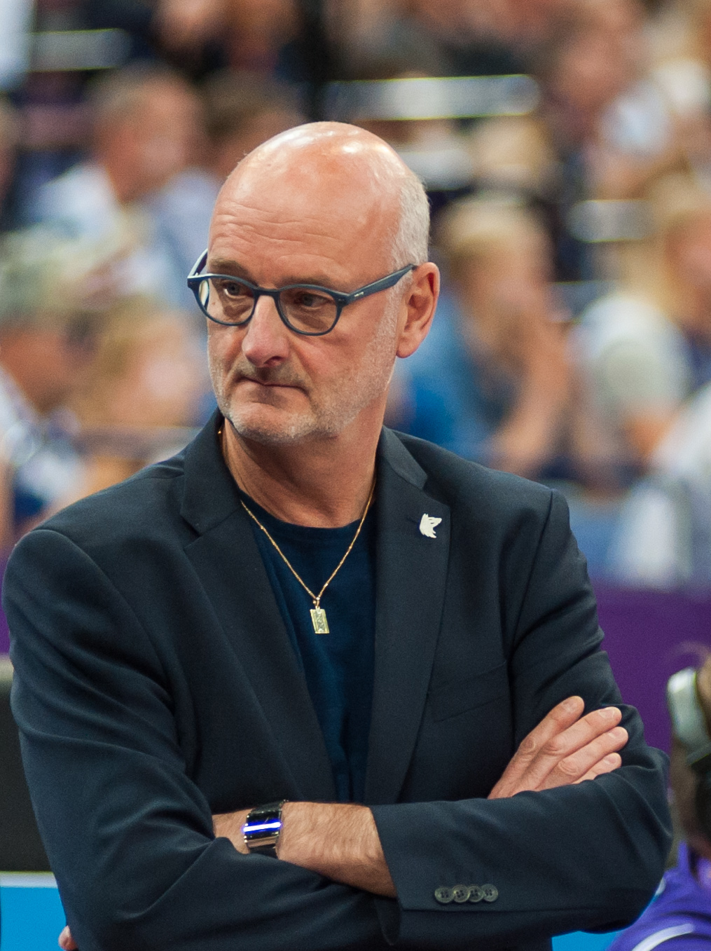 EuroBasket 2017 Group A game between Greece and Finland at Hartwall Arena in Helsinki, Finland.